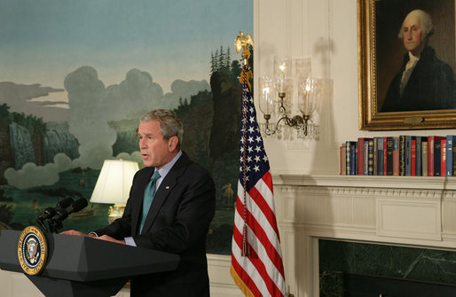 President George W. Bush delivers a statement at the White House Tuesday, Sept. 30, 2008, regarding the economic rescue plan. Said the President, "We're at a critical moment for our economy, and we need legislation that decisively address the troubled assets now clogging the financial system, helps lenders resume the flow of credit to consumers and businesses, and allows the American economy to get moving again."